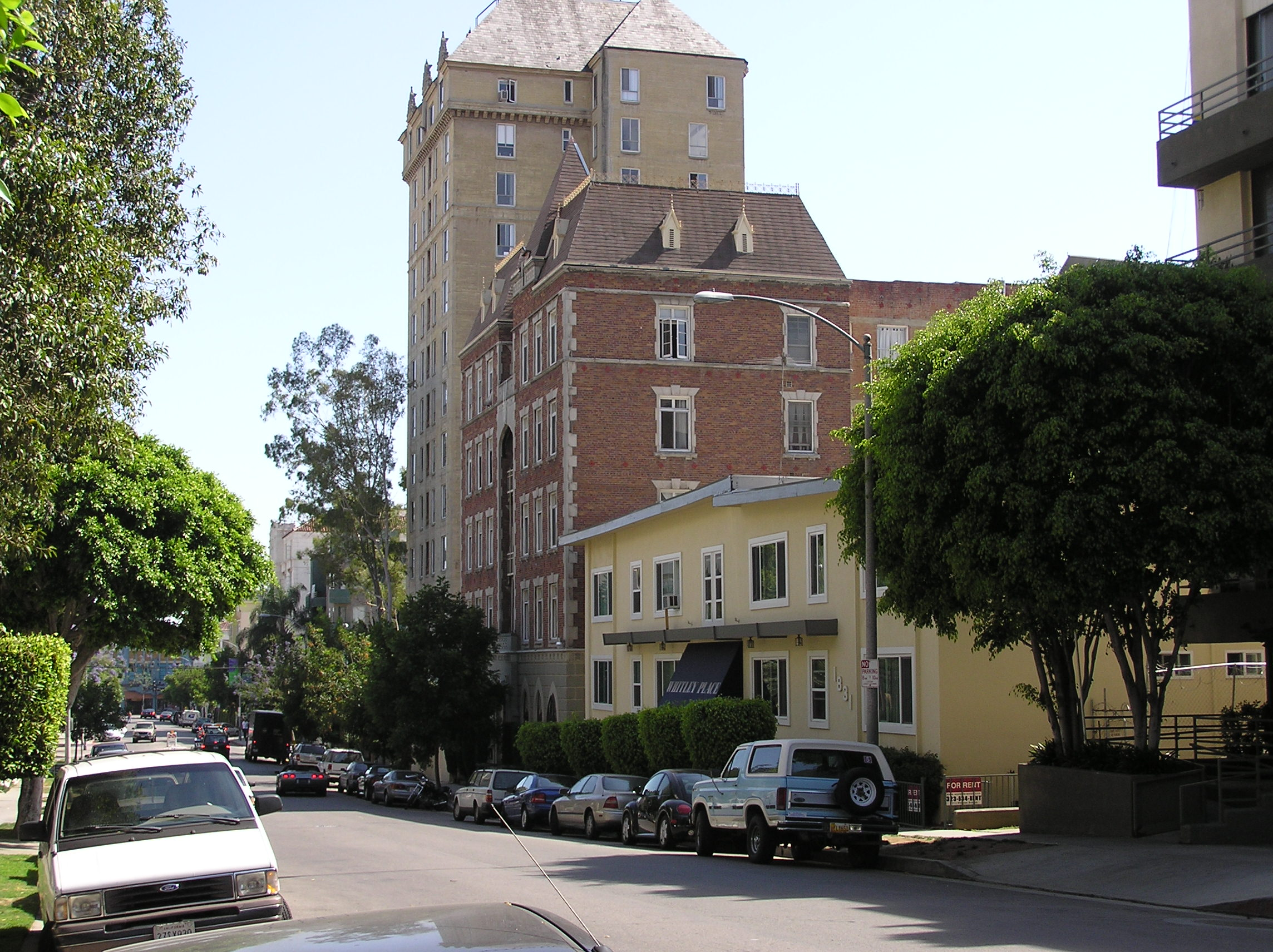 Subject: Whitley Avenue, south from Franklin Street, Hollywood California. Source: Taken by user EmergentProperty, 2004.